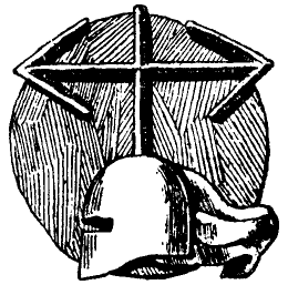 Coat of arms Bogoria, architectonic detail